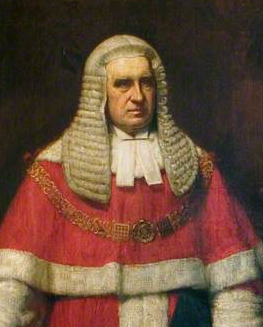 Portrait of Charles Russell, Baron Russell of Killowen, Lord Chief Justice